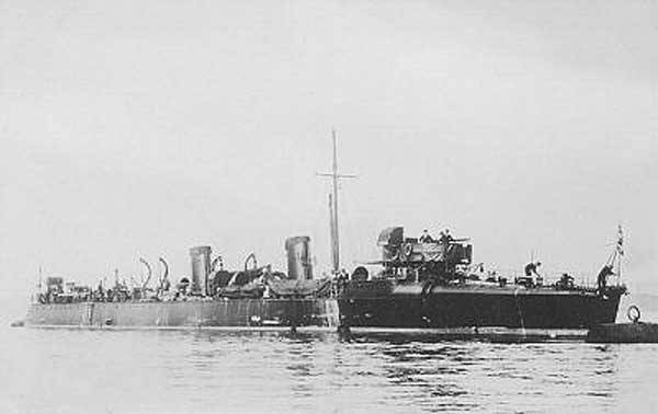 HMS Ariel , an early Royal Navy destroyer